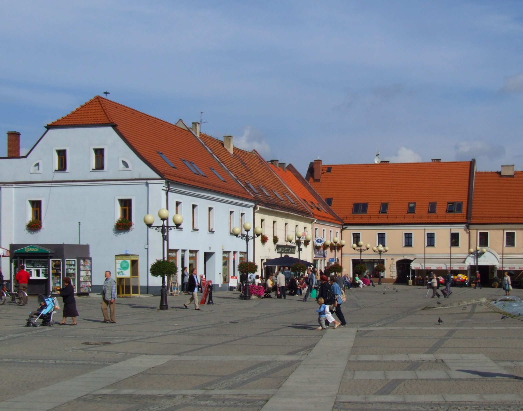 Mikołów (Nikolei) market square